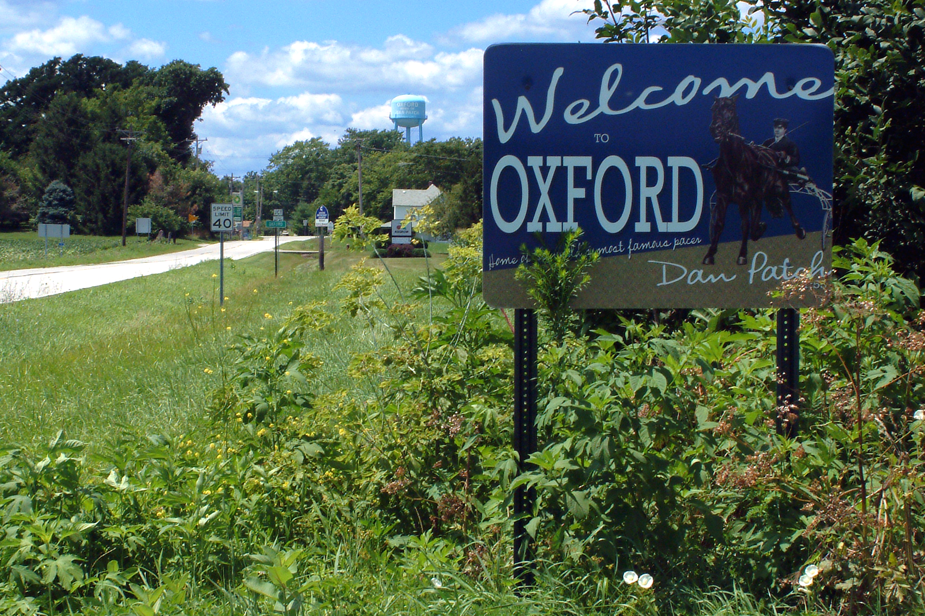 A sign along Benton County Road 600 South (Indiana State Road 352) welcomes visitors to the town of Oxford, Indiana. Photo looks west. Sign reads: Welcome to Oxford Home of the world's most famous pacer Dan Patch 1:55